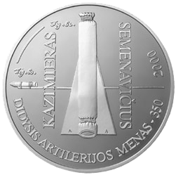 50 litas coin issued to honour the 350th Anniversary of the publication "The Great Art of Artillery" by Kazimieras Semenavicius Silver Ag 925 Quality proof Diameter 38.61 mm Weight 28.28 g The words on the edge of the coin: ARS MAGNA ARTILLERIAE*MDCL The designer of the coin is Gediminas Karalius Mintage 2,000 pcs Issued 2000 Distribution terminated 2005 Distributed 1,936 pcs The coin was minted at the state enterprise Lithuanian Mint.